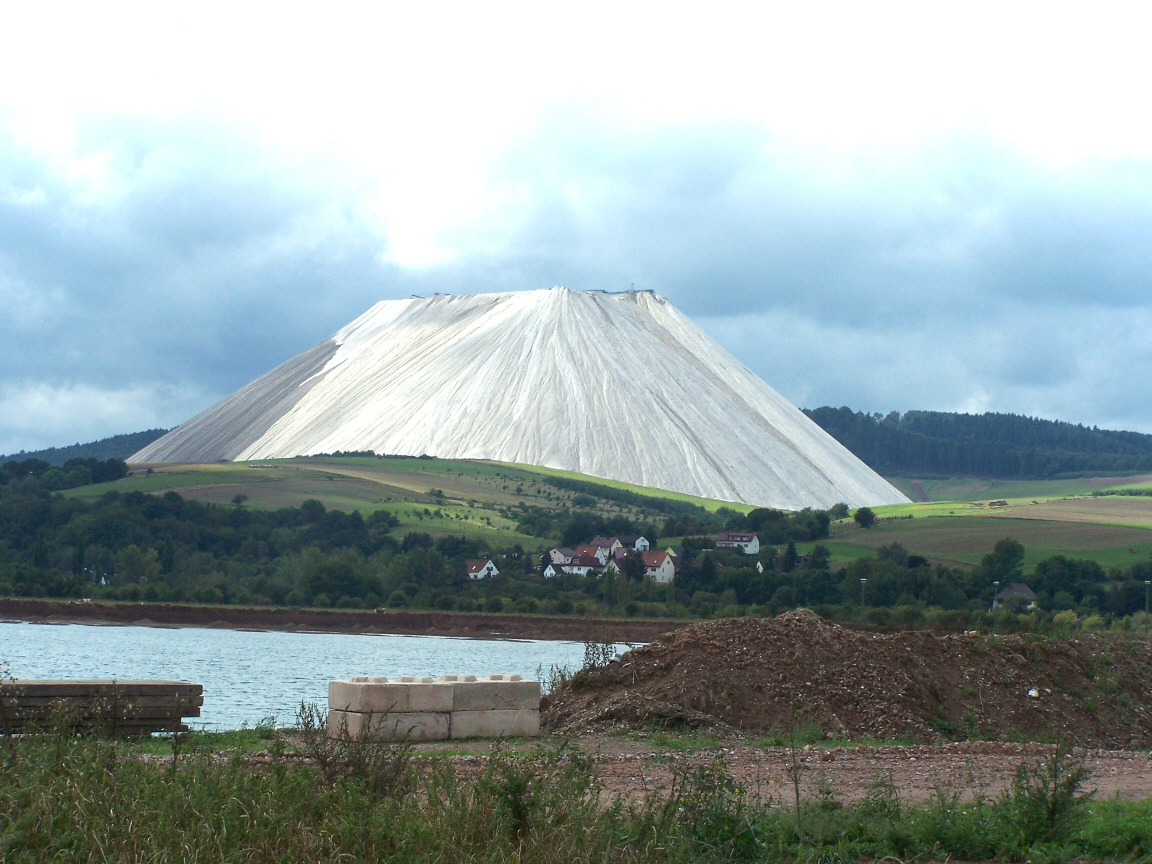 Salt mining and construction gravel, the natural resources.